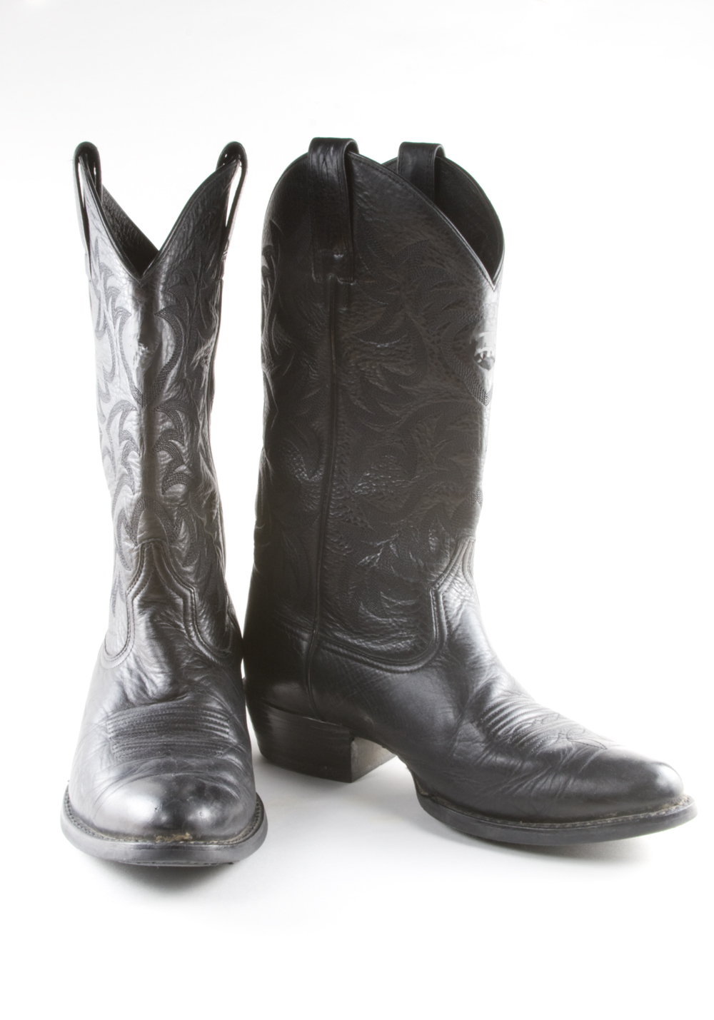 Black Western cowboy boots on a white background